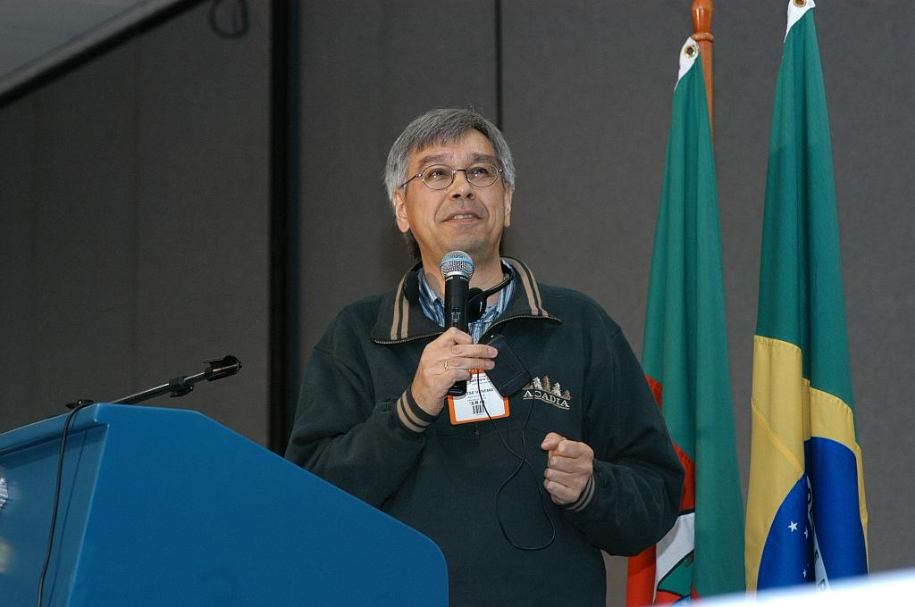 Wietse Venema, creator of the Postfix mail system.